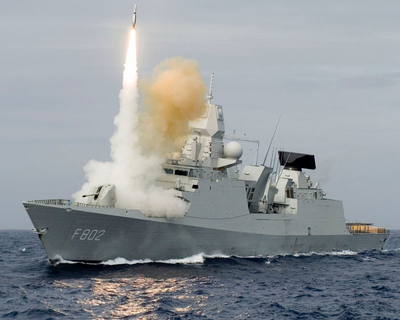 HNLMS De Zeven Provincien (F802) fires a SM-2